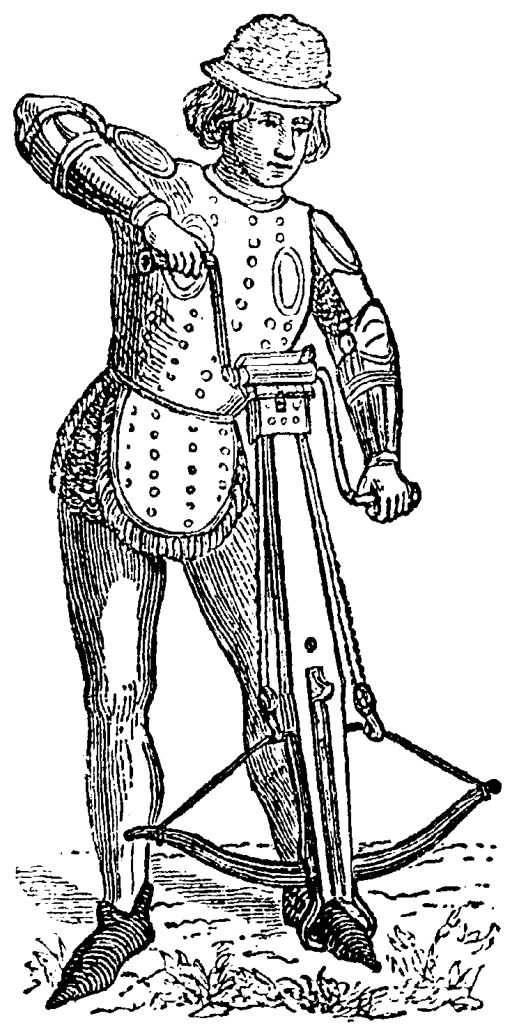 Crossbow